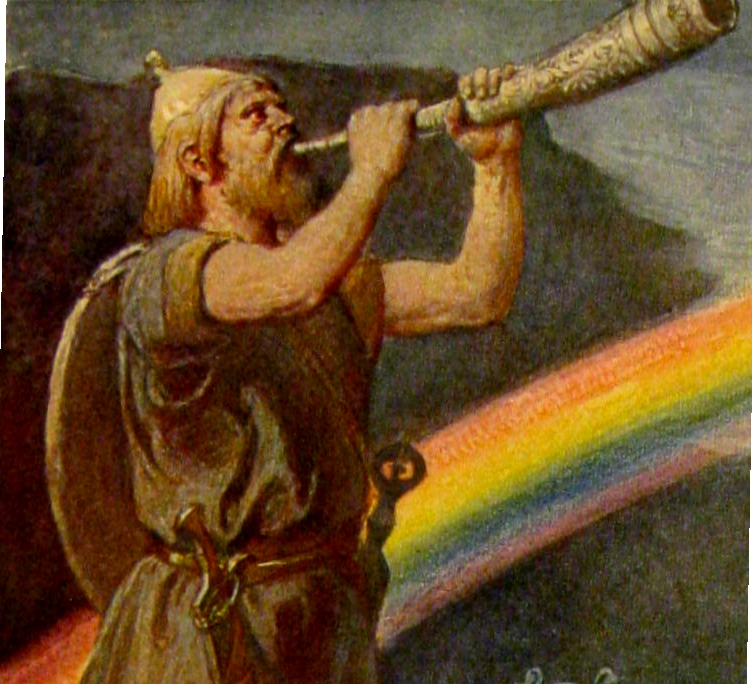 Heimdall an der Himmelsbrücke. Heimdallr stands by the bridge, blowing into Gjallarhorn.